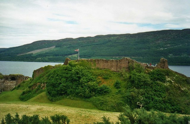 Urquhart Castle from Visitor Centre